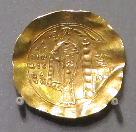 Byzantine art in Switzerland